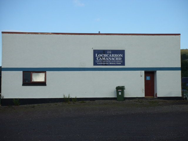 Lochcarron Camanachd clubhouse Headquarters of the local shinty team.